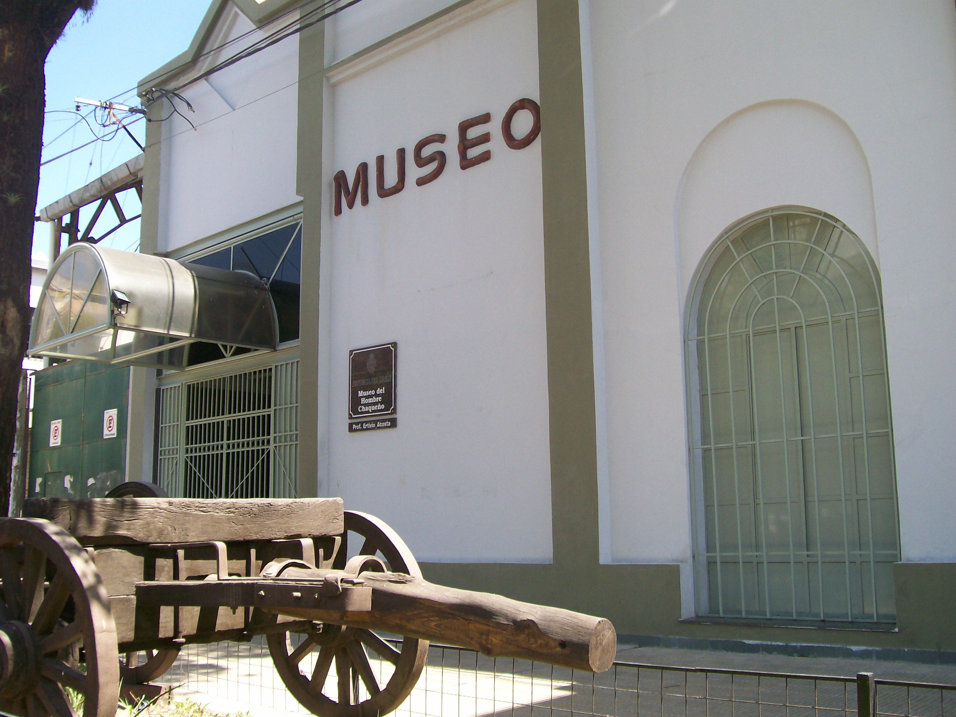 Museo del Hombre Chaqueño (Chaco's Men Museum), in Resistencia, Chaco, Argentina. It's the most important historical museum in Chaco Province.